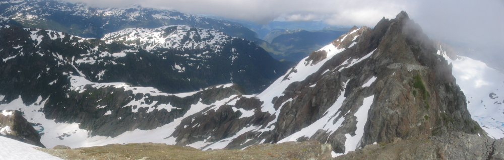 Mt Rosseau (right), Price Pass (center) and Flower Ridge (left). Photo taken from the summit of Mt Septimus.